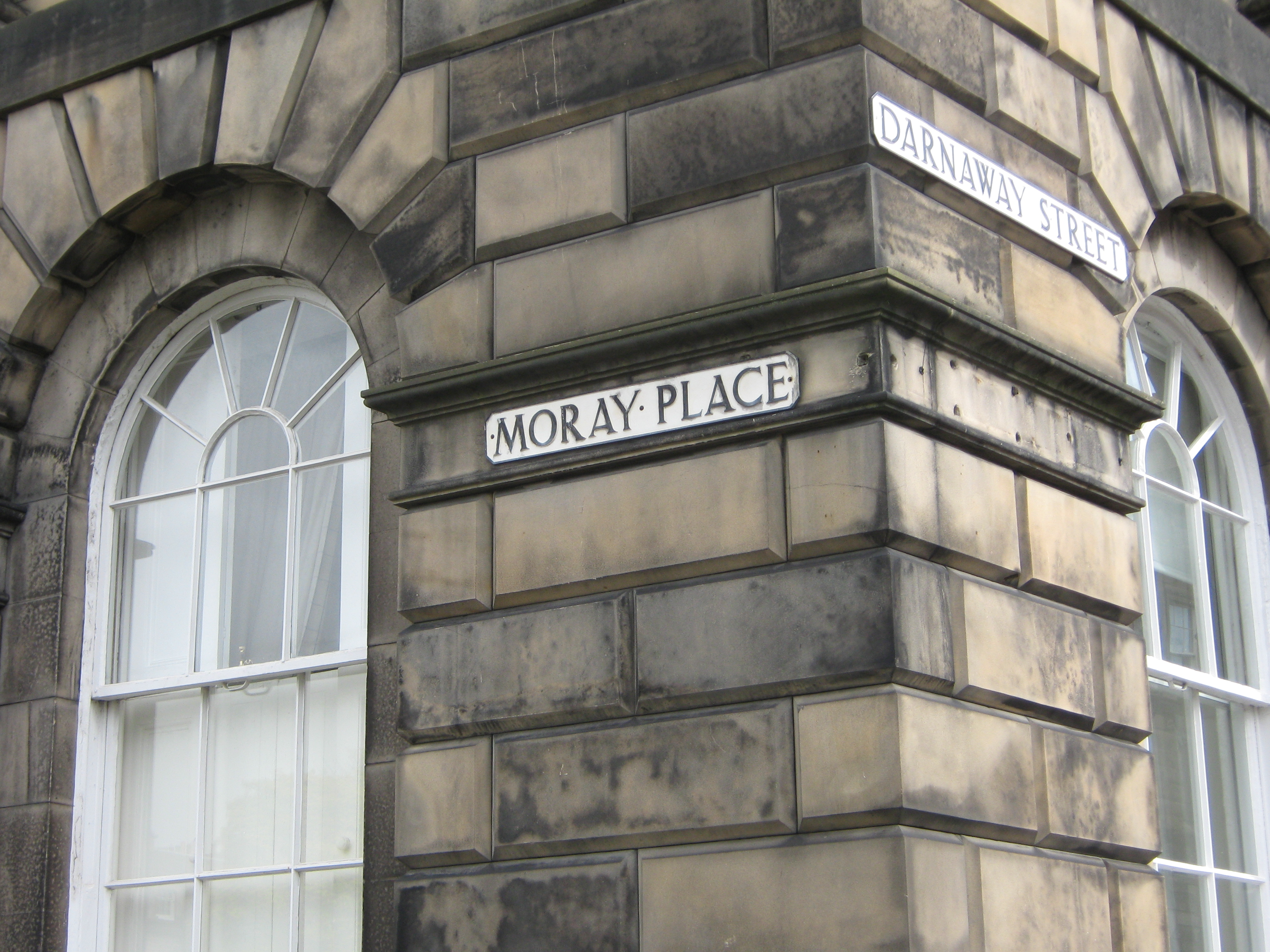 Moray Place, Edinburgh. Location (OSM permalink)